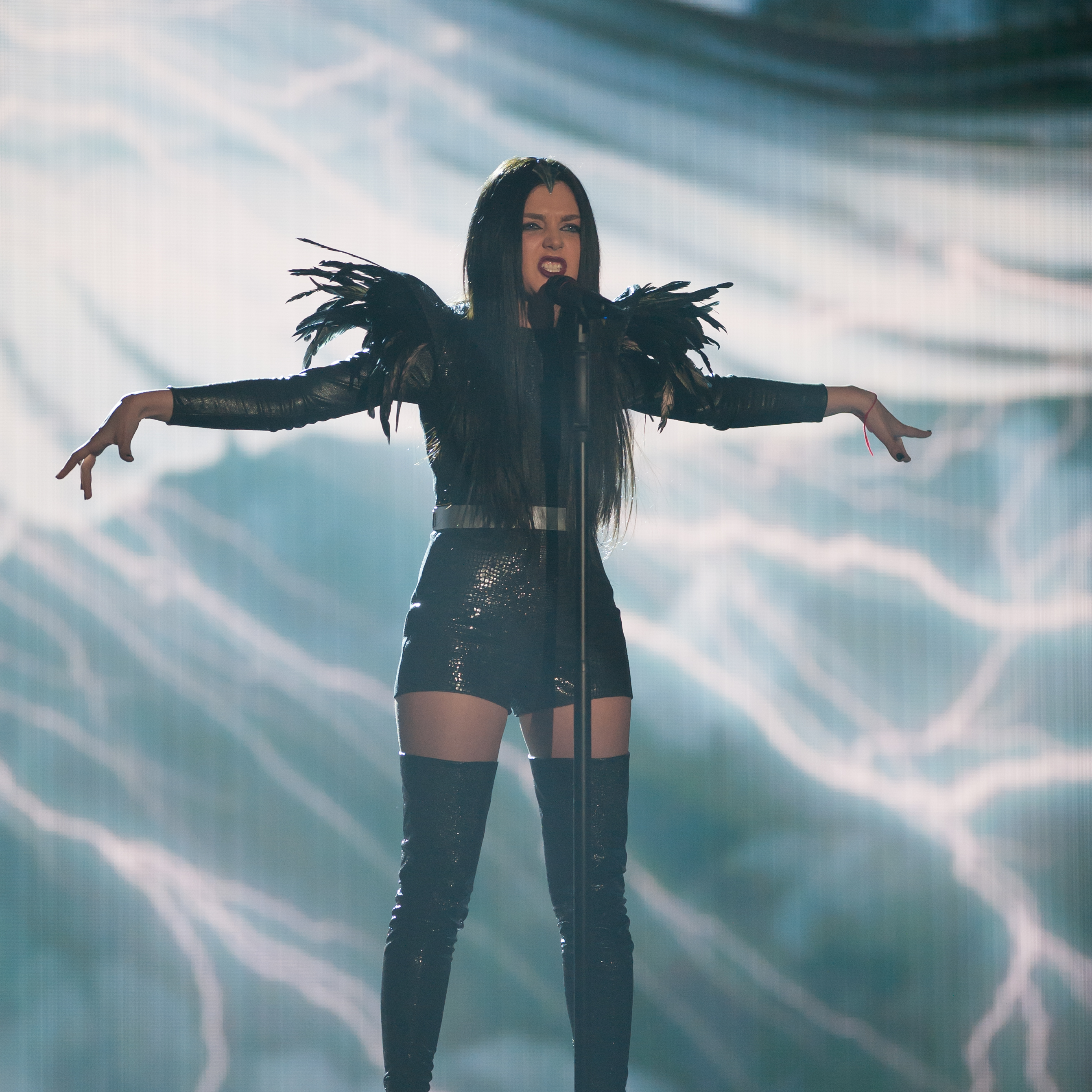 Eurovision Song Contest Vienna 2015: Nina Sublatti, Georgia